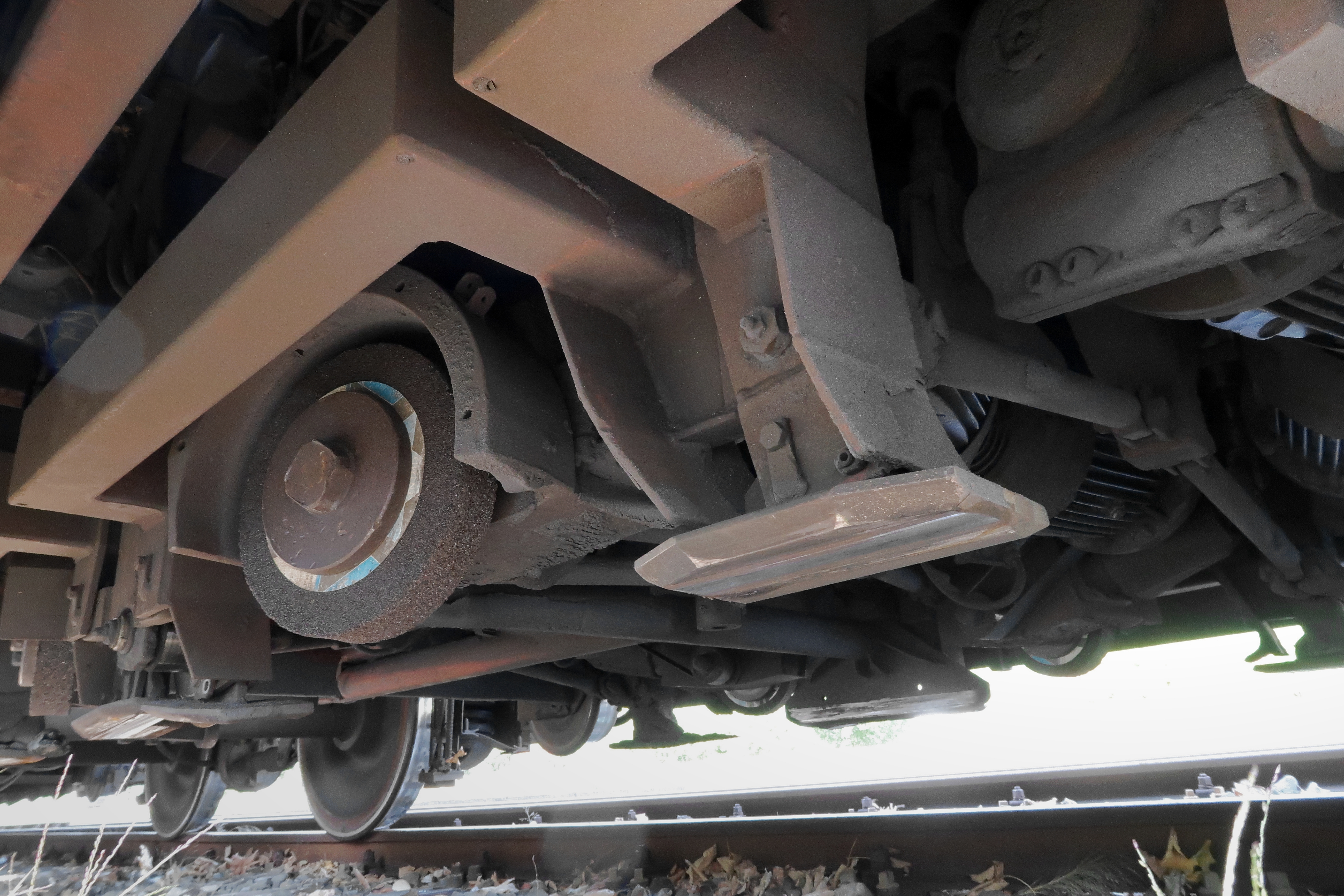 The view under the grinding unit of the Scheuchzer work train Grizzly 103. Switzerland, Sep 22, 2018. (10/11)